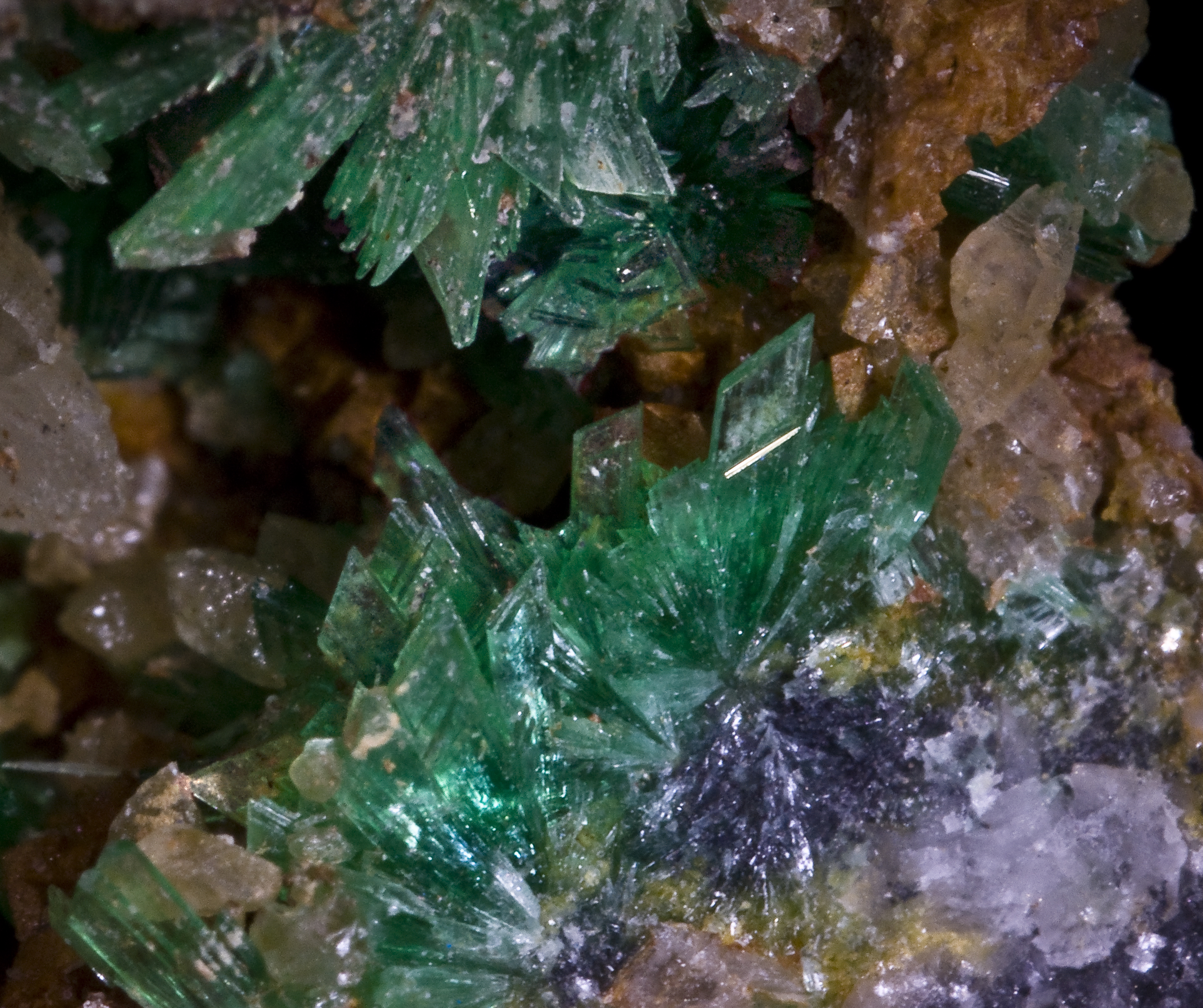 Annabergite Locality: Km-3 Mine, Lavrion Mines, Lavrion (Laurion; Laurium), Lavrion District Mines, Lavrion (Laurion; Laurium) District, Attikí (Attica; Attika) Prefecture, Greece Size : View 2 cm Crystal 0.4 cm